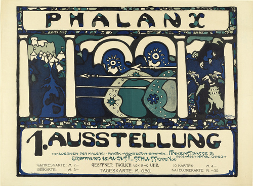 Wassily Kandinsky: Poster of "Phalanx", technic: lithograph